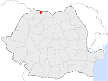 Location of Sighetu Marmației in Romania.